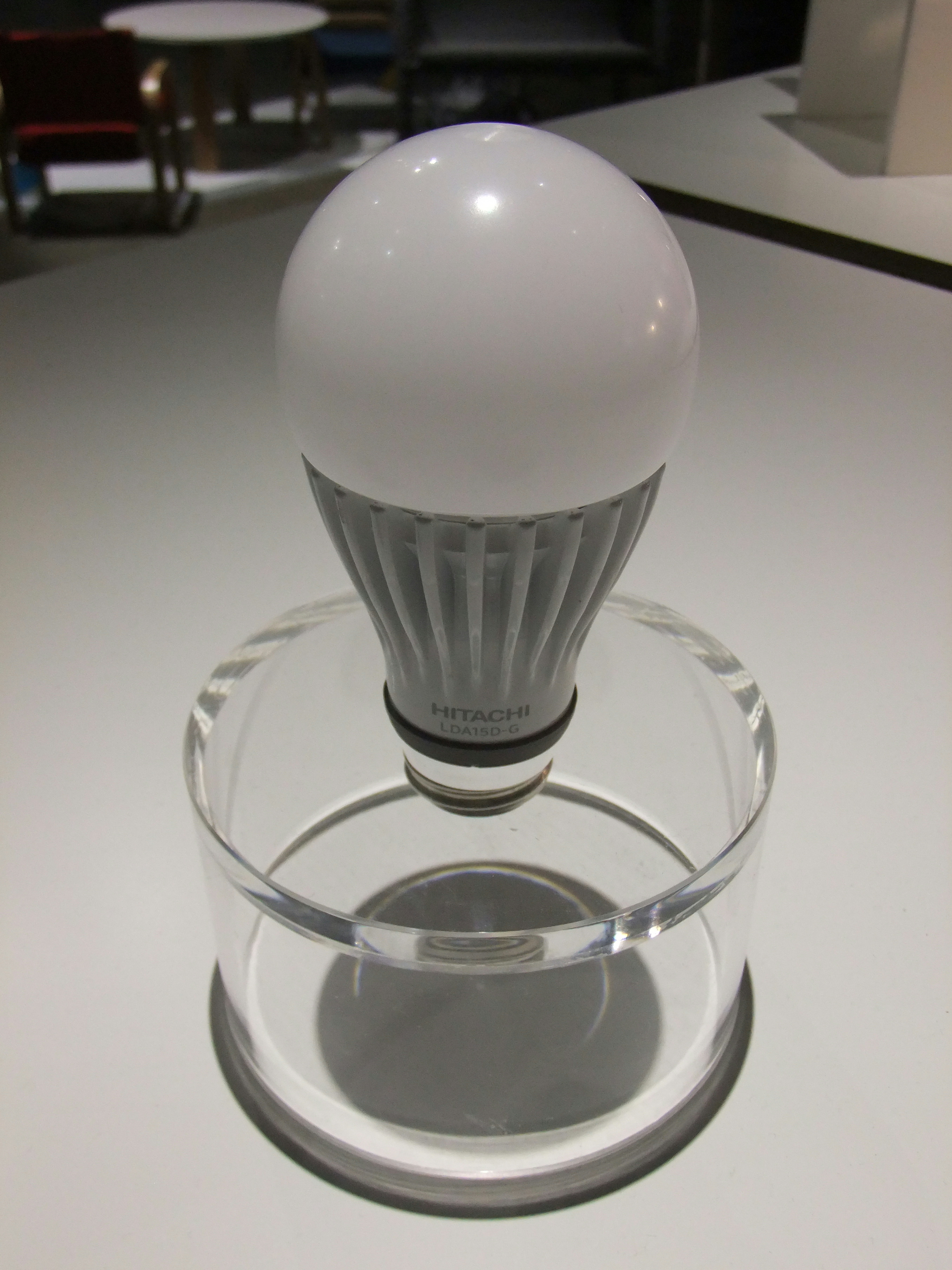 LED lamp manufactured by Hitachi Appliances, Inc. LDA15D-G, E26. Good Design Award 2012.